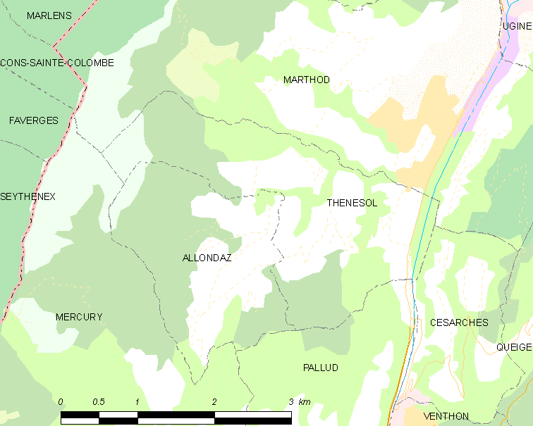 Map of French municipality Thénésol